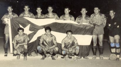 Municipal of Guatemala, winners of the 1948 Cuban Independence Tournament.